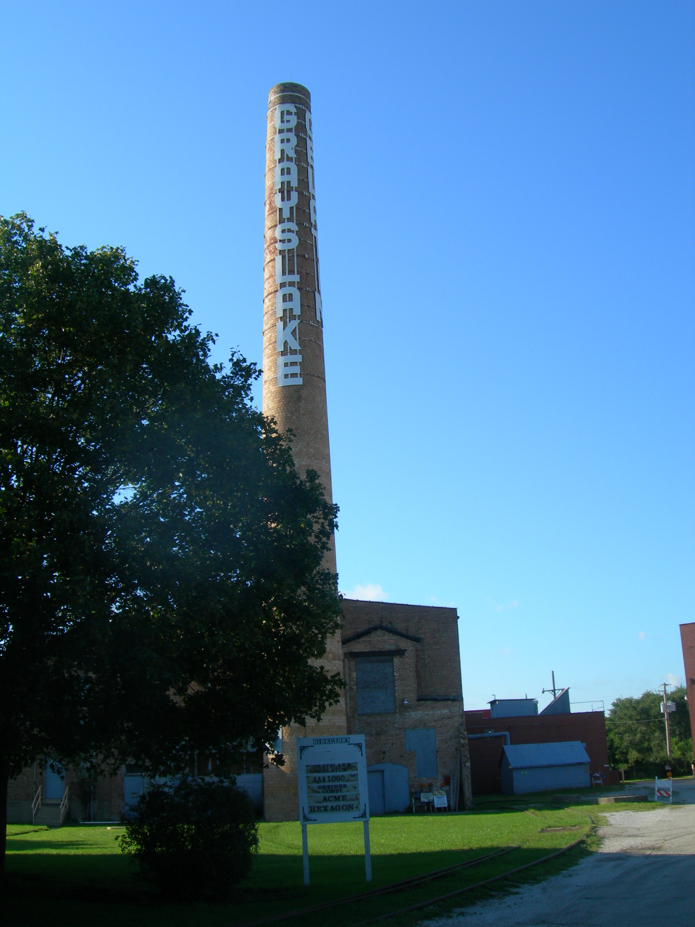 Grayslake Gelatin Factory. Photo taken by me.